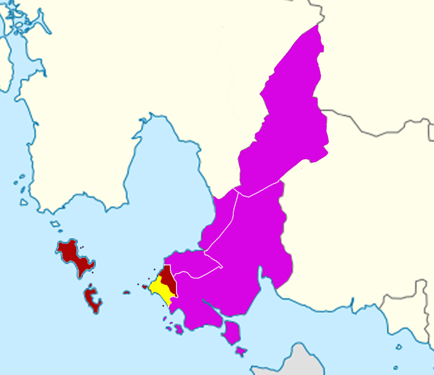 Map graphics of Sihanoukville City's urban area (yellow) inside Mittakpheap District (dark red) and Sihanoukville Province (purple)